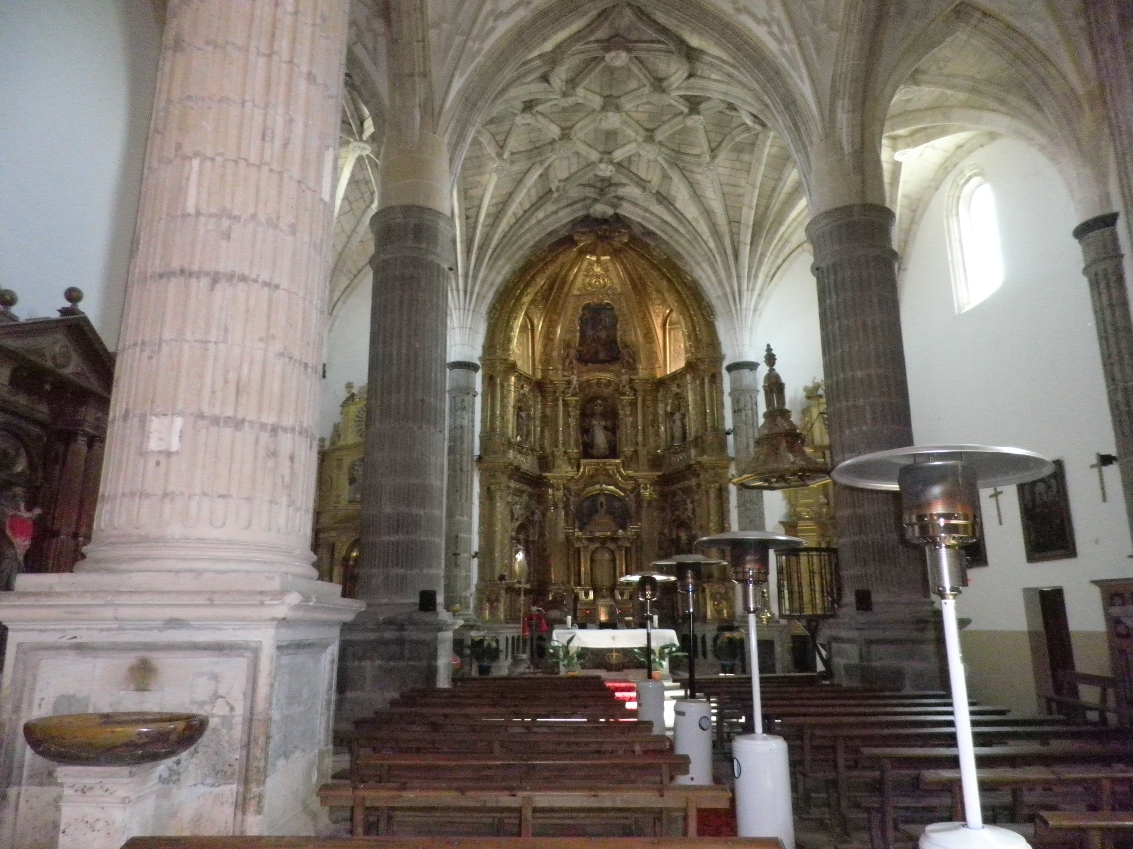 Inside of Nuestra Señora de la Asunción church in Paradinas, Segovia, Spain.